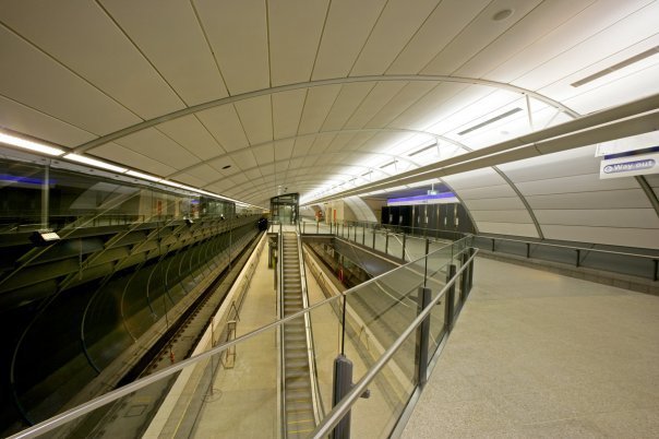 Inside the under construction concourse at Macquarie Park Station on the Epping to Chatswood rail line